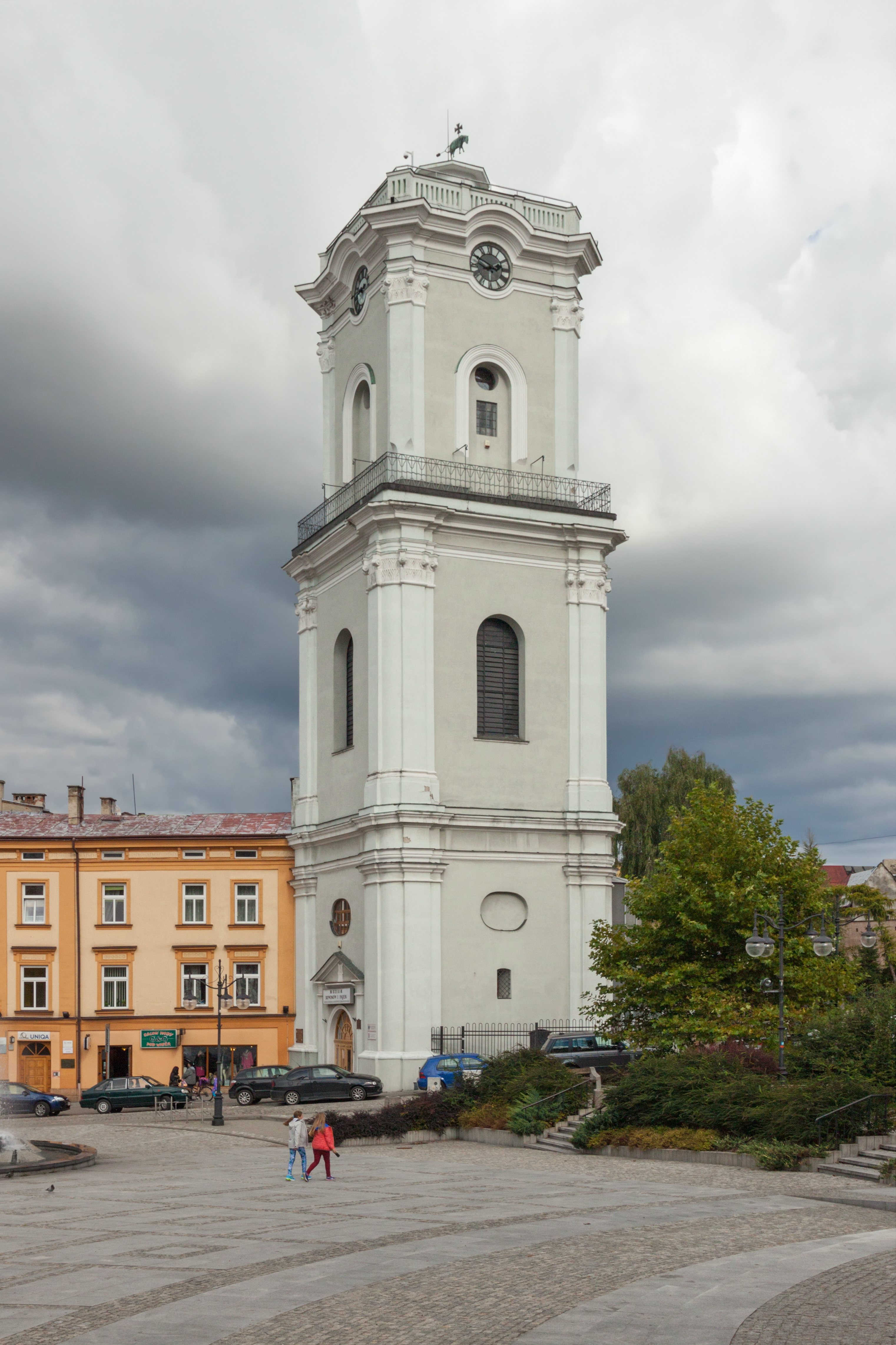 Clock tower, 1775-1777. Przemyśl, Subcarpathian Voivodeship, Poland.